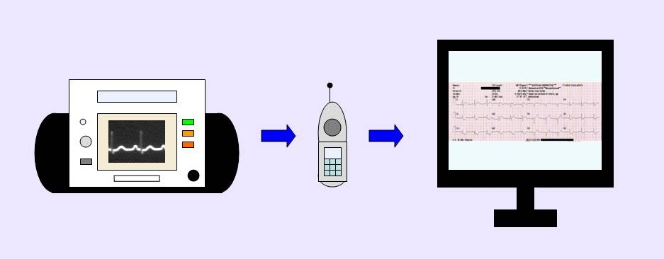 Author: MoodyGroove Tools: PowerPoint and IrfanView Date: July 6, 2007